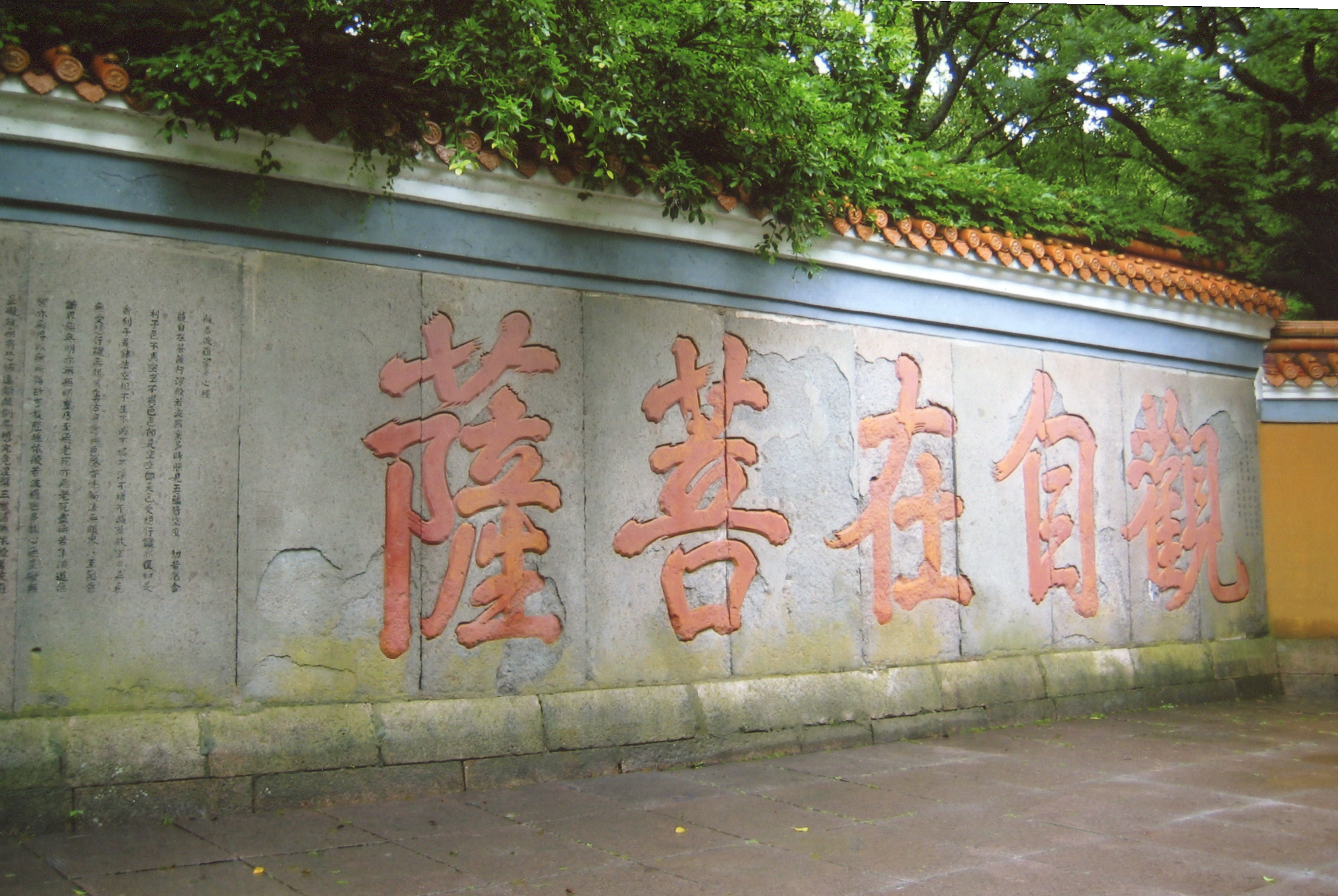 Heart Sutra engraved on wall with Avalokitesvara Bodhisattva in red, followed by rest of sutra in black. Engraved in 1723. Located in Putuoshan, Zhejiang, China -- bodhimanda of Avalokitesvara Bodhisattva (aka Guanyin Pusa)